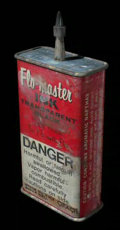 Original image created by designer Michael McGetrick, using a combination of photography of an actual flo-master ink can and 3d rendering in the Electric Image Animation System. Feel free to use this image with attribution.